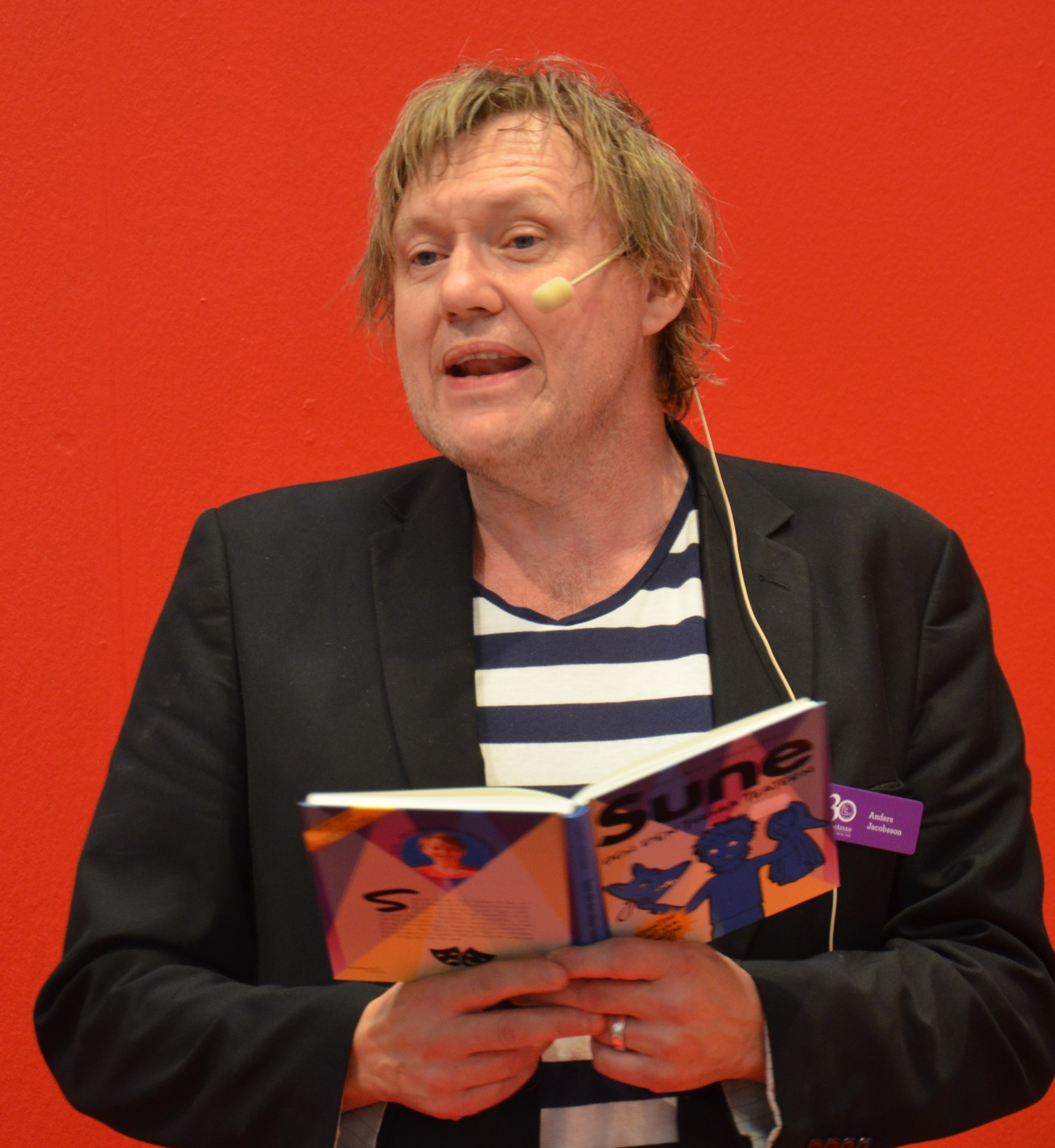 Anders Jacobsson